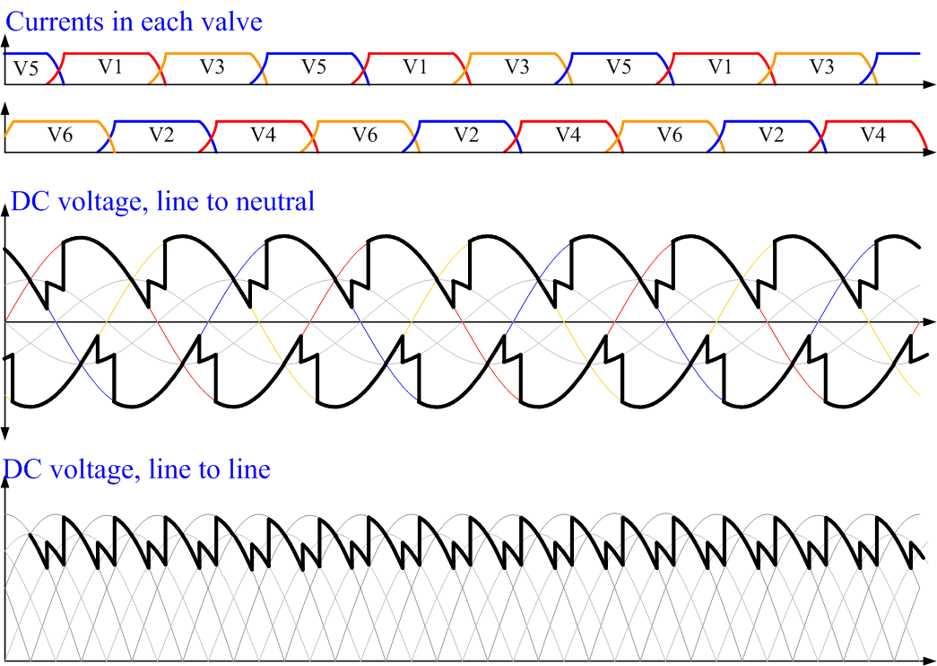 Voltage and current waveforms of a three-phase controlled Graetz bridge rectifier operating at a firing delay angle of 20 degrees and an overlap angle of 20 degrees